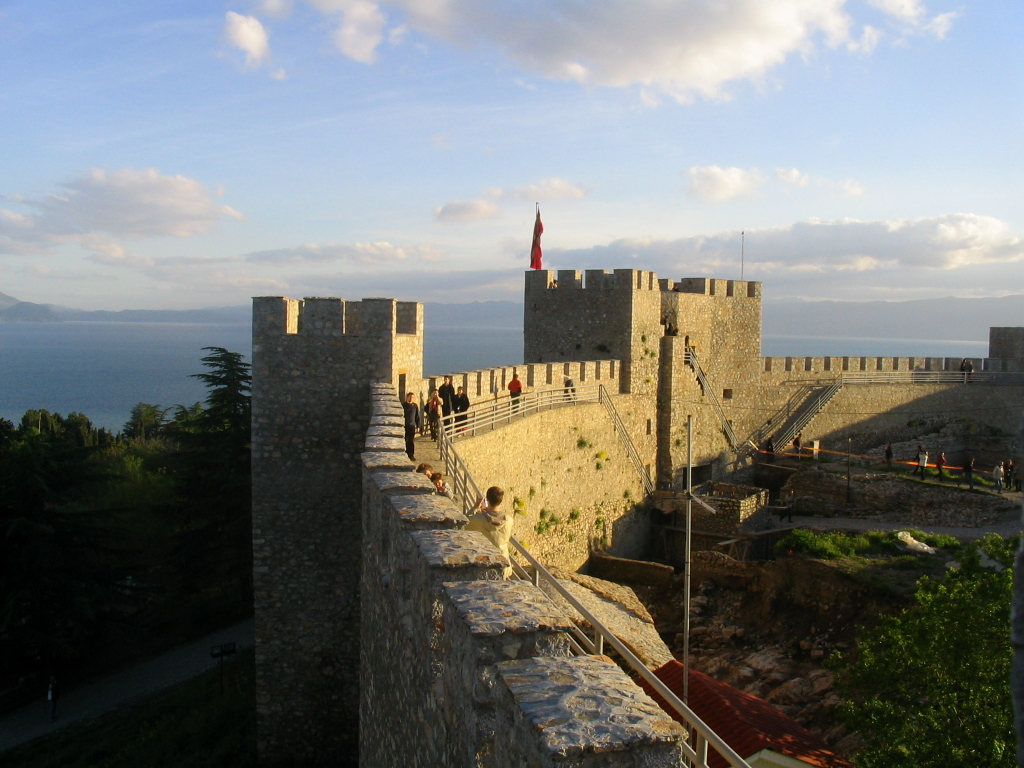 Ohrid, a very beautiful town situated on the Ohrid lake. Ohrid is on the UNESCO list. Photo by Biserka Mitrovic.